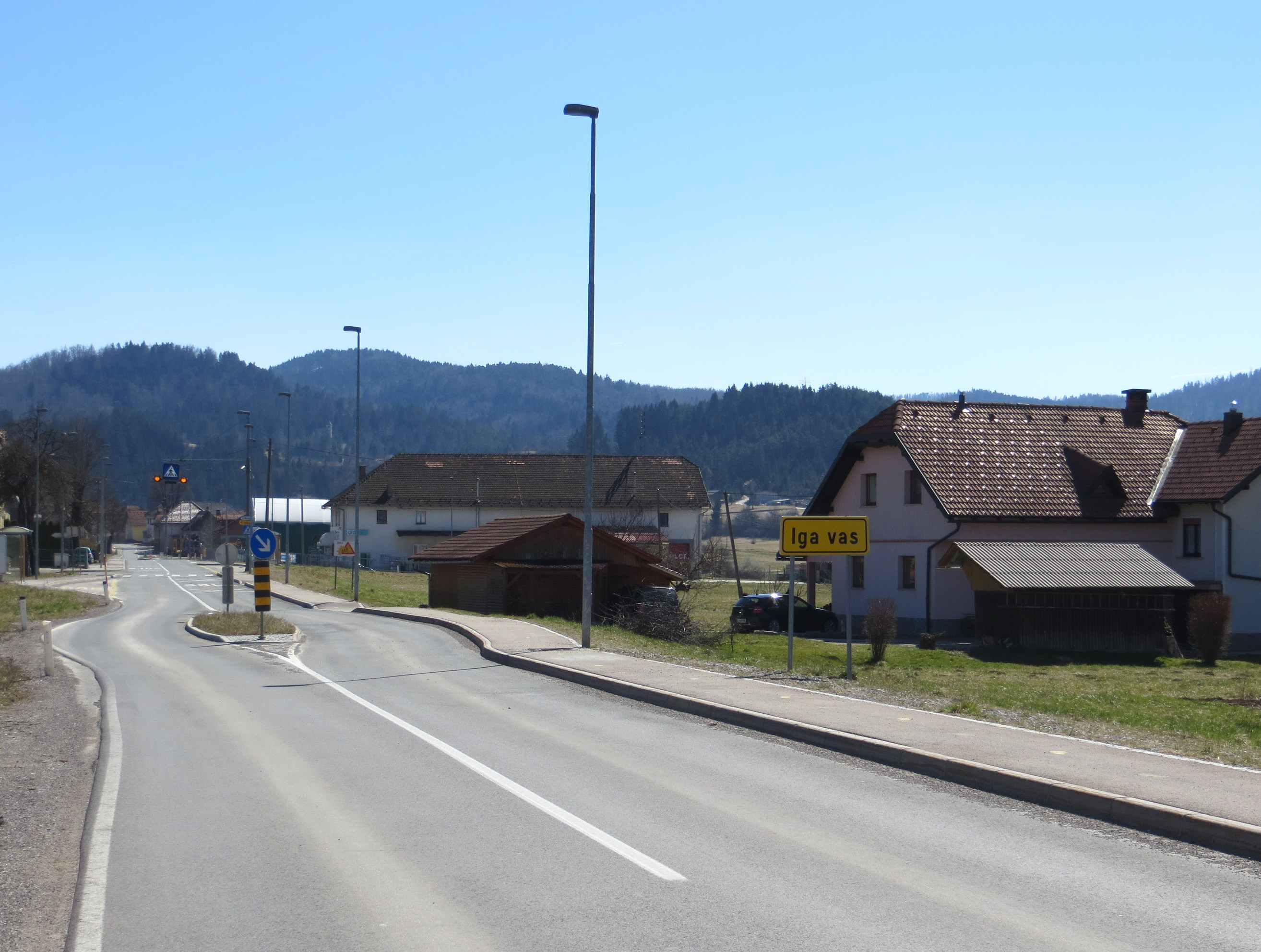 Iga Vas, Municipality of Loška Dolina, Slovenia